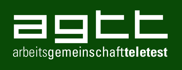 Logo der Arbeitsgemeinschaft TELETEST (AGTT), Wien, Österreich / Europäische Union.